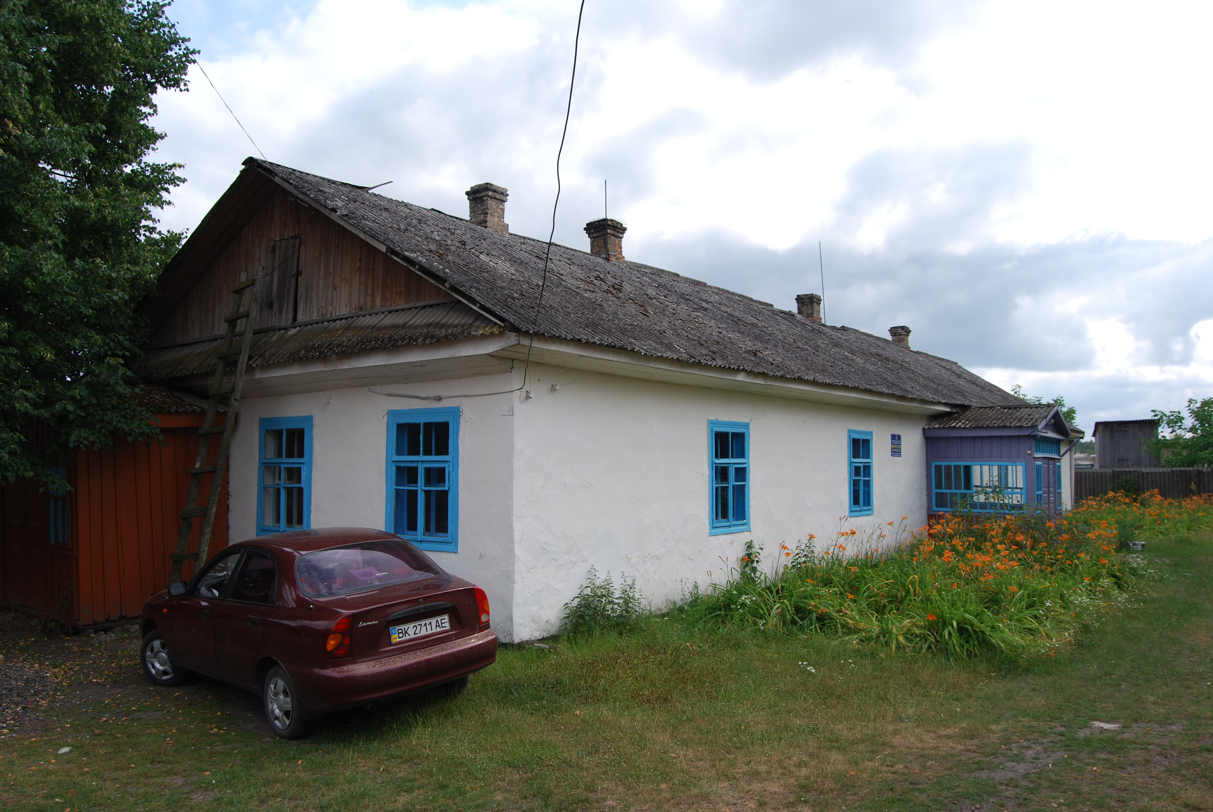 The house of Drohomireccy family (before WW2) in Derażne